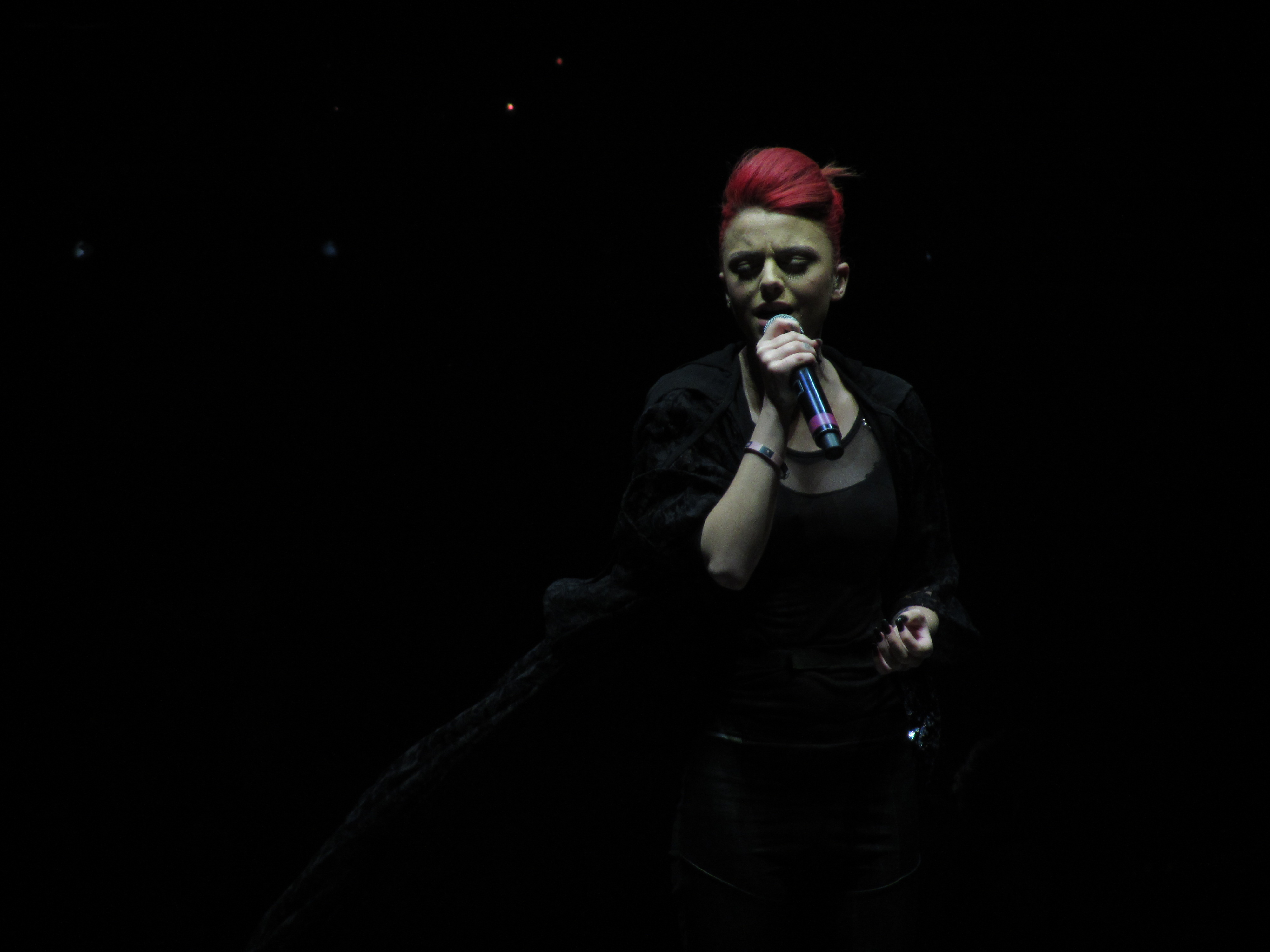 Cher Lloyd, The X Factor Live, SECC, Glasgow, 1 April 2011